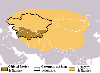 Image:Central_Asia_borders4.png, showing different definitions of the the central asia region.